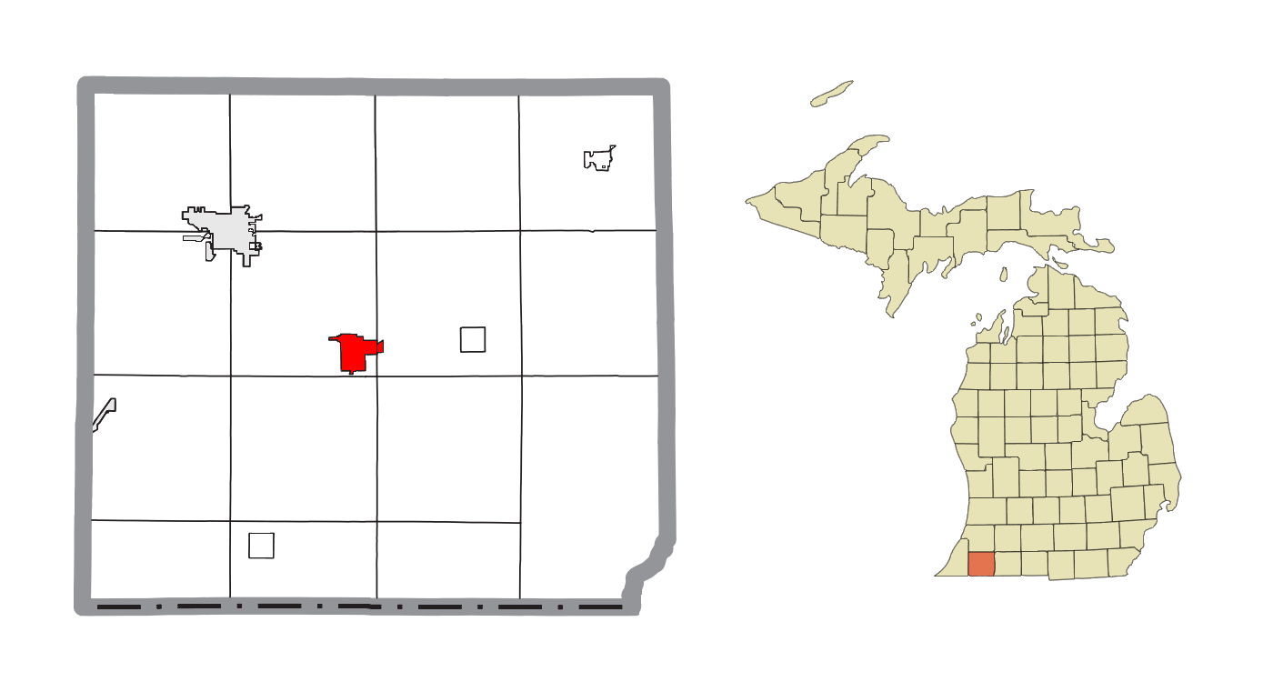 Cassopolis, MI